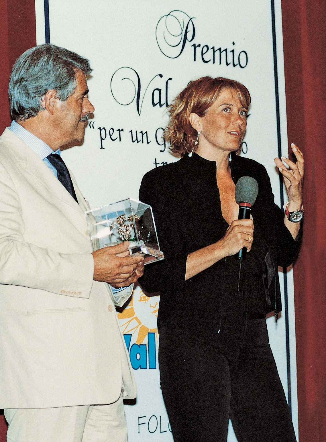 Monica Maggioni (2004)